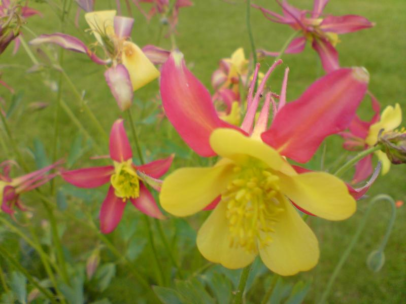 Aquilegia × cultorum hybrid in Kew Gardens, England.